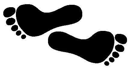 Third position of the feet in Ballet